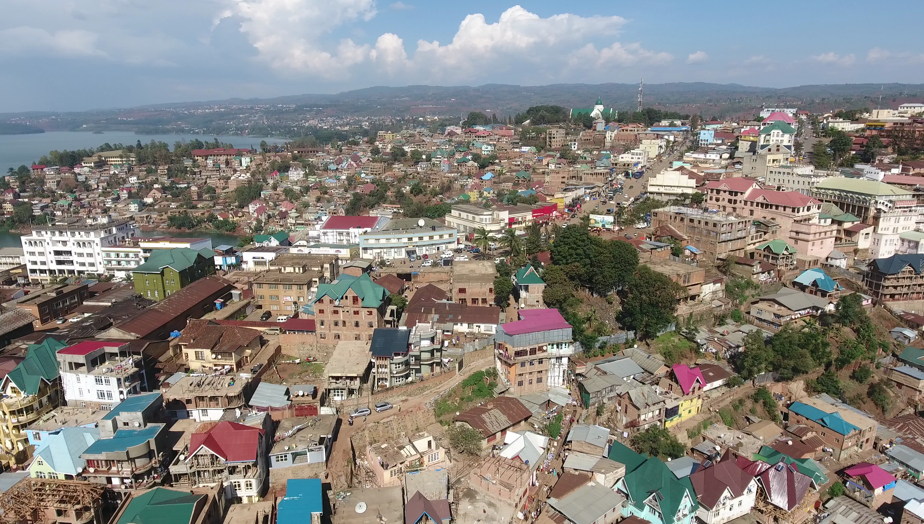 This is an image of "African people at work" from Democratic Republic of the Congo